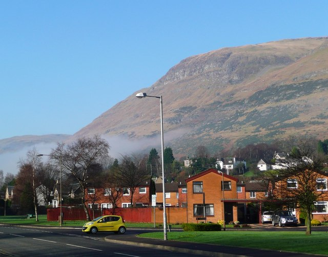 Alva and the Ochils